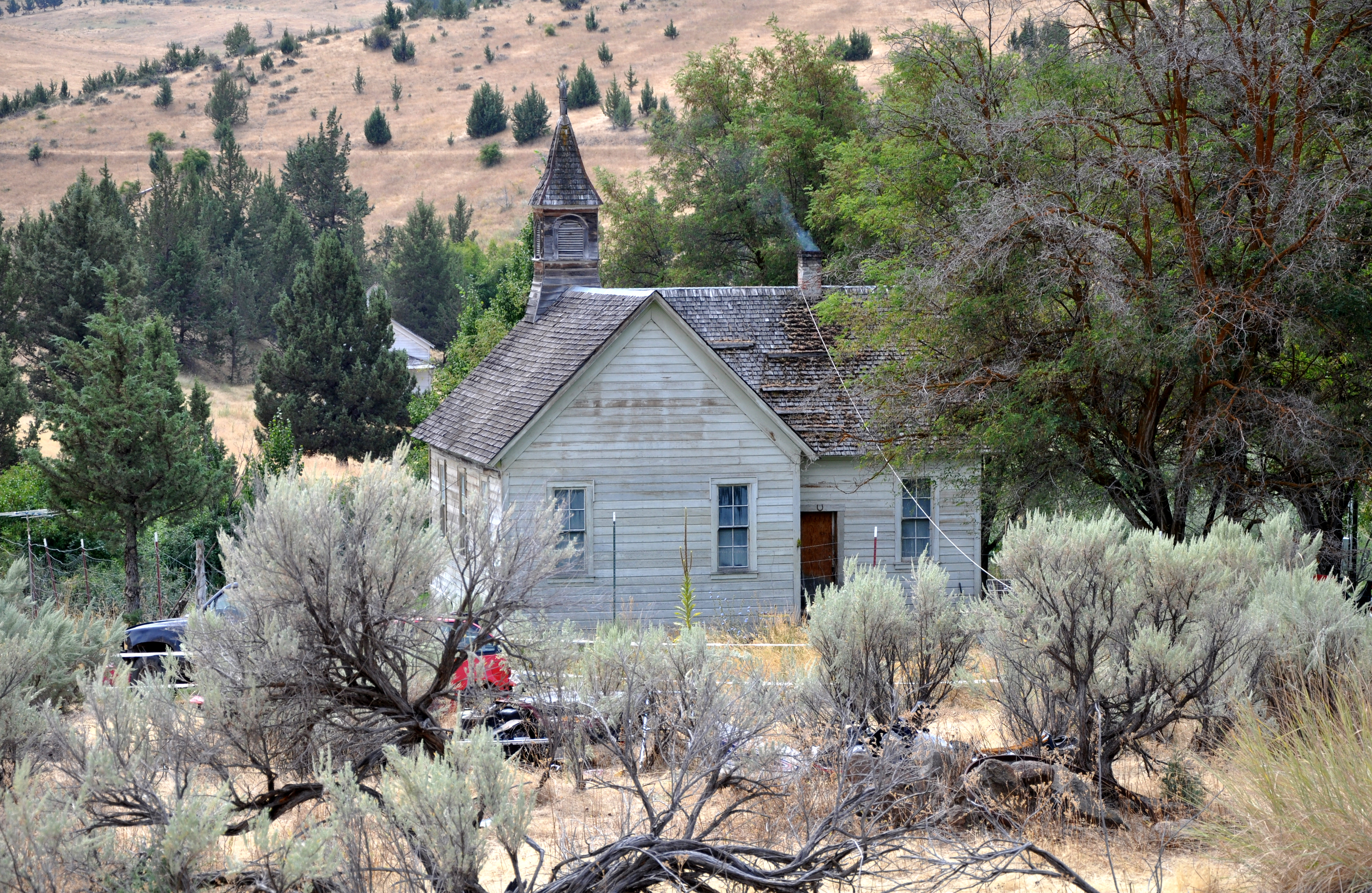 Church building in Richmond in the U.S. state of Oregon. Richmond is an unincorporated community in rural Wheeler County.